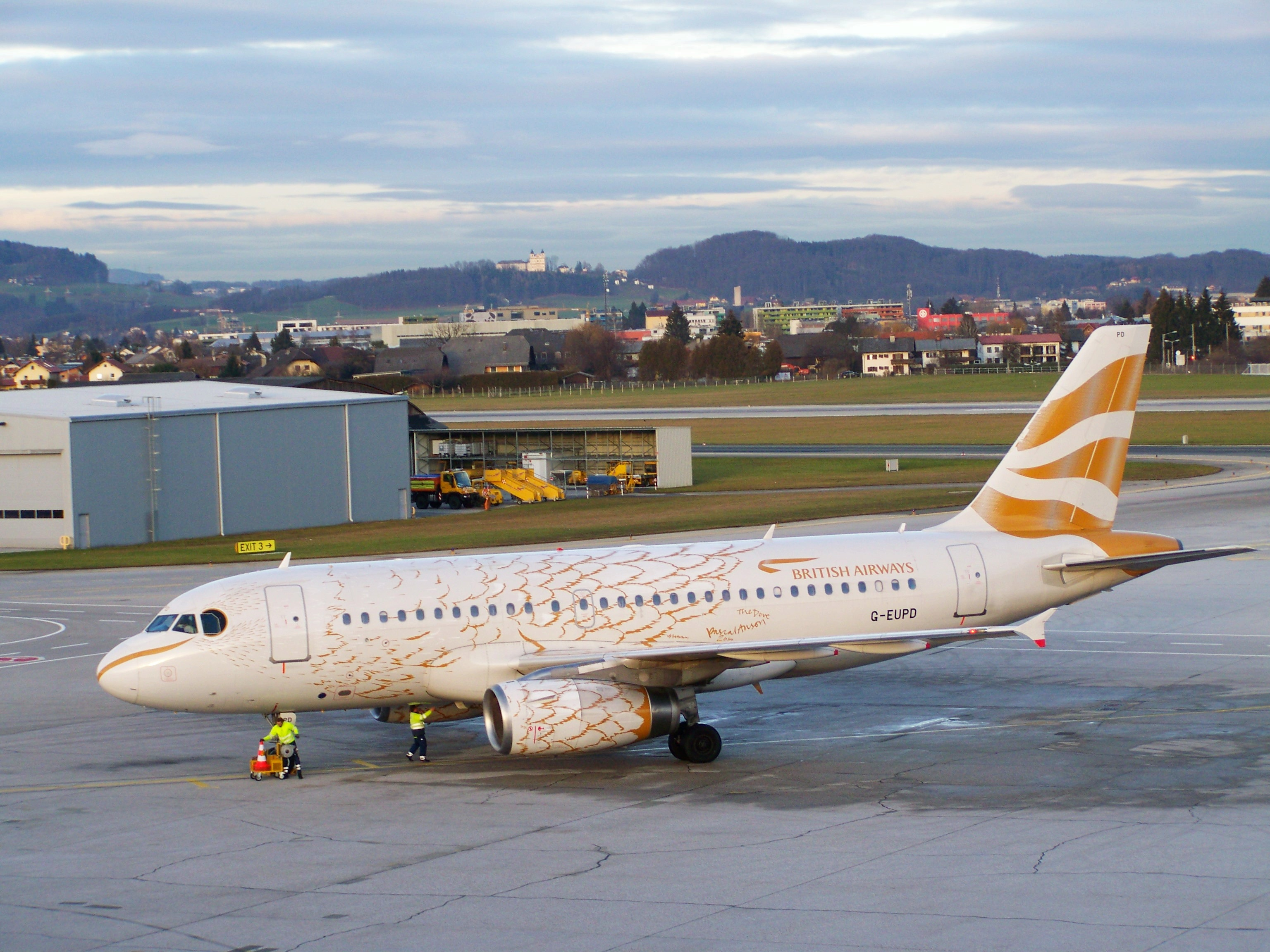 British Airways in Salzburg